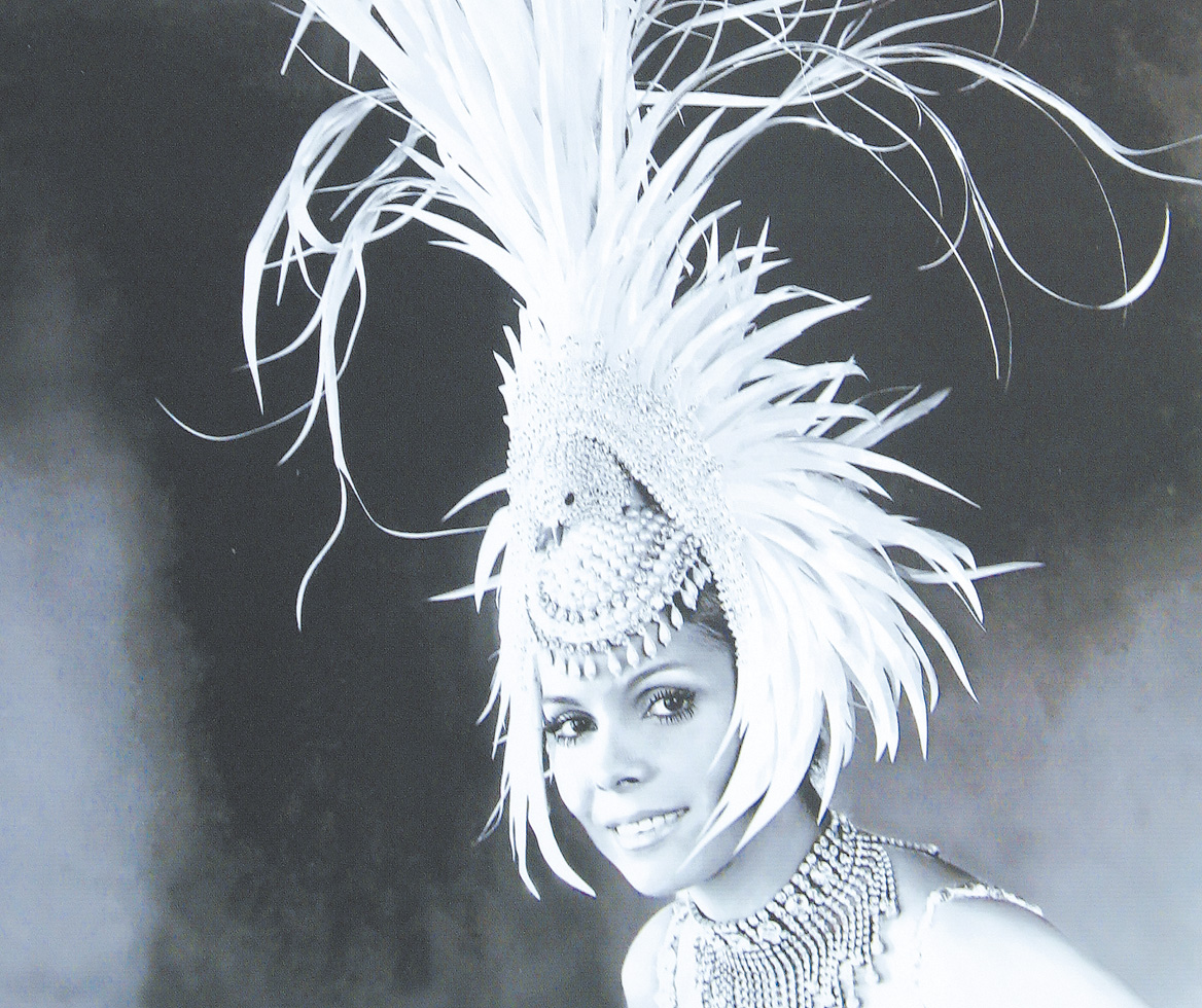 Nelida Lobato